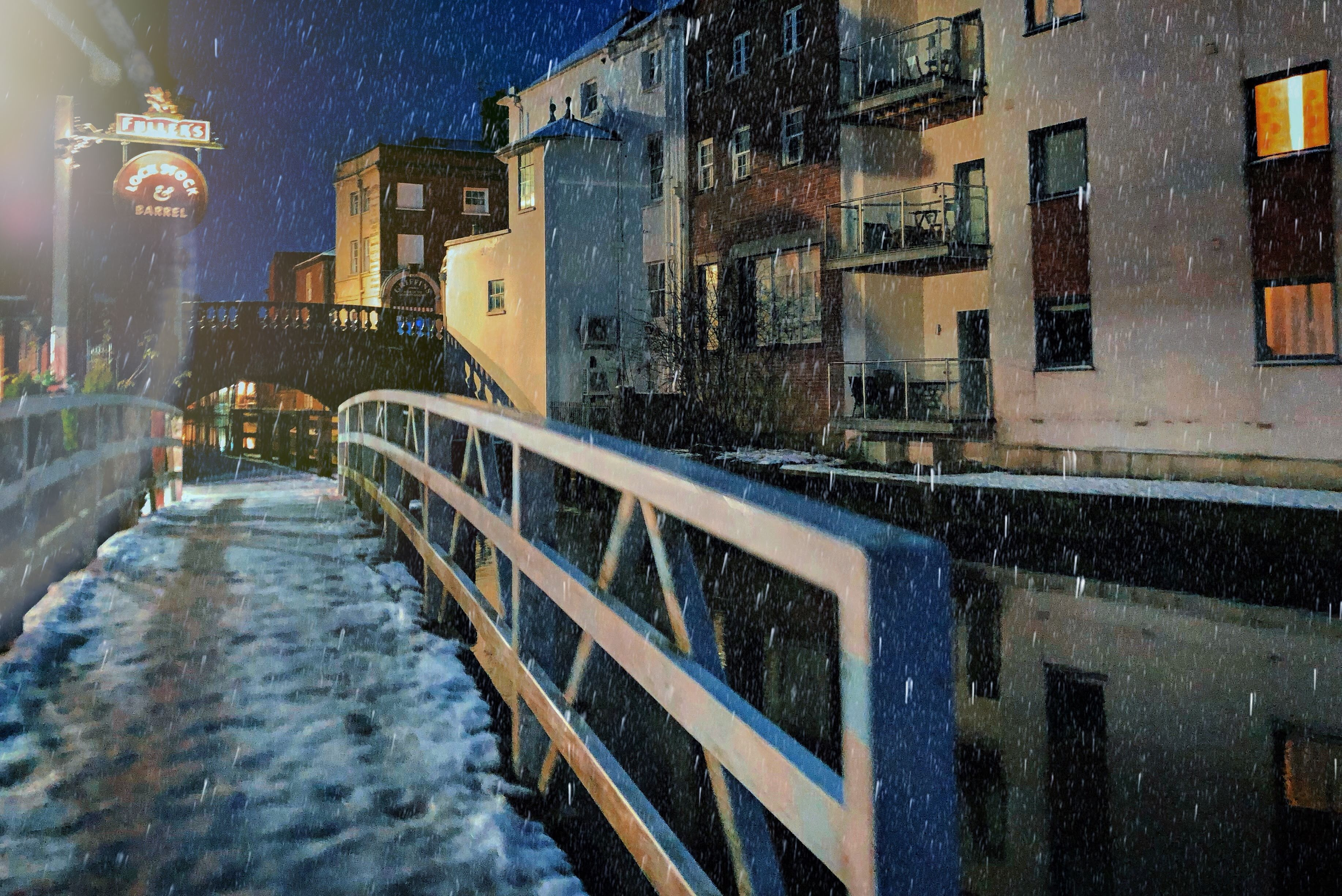 The bridge next to the Lock Stock and Barrel pub in Newbury UK